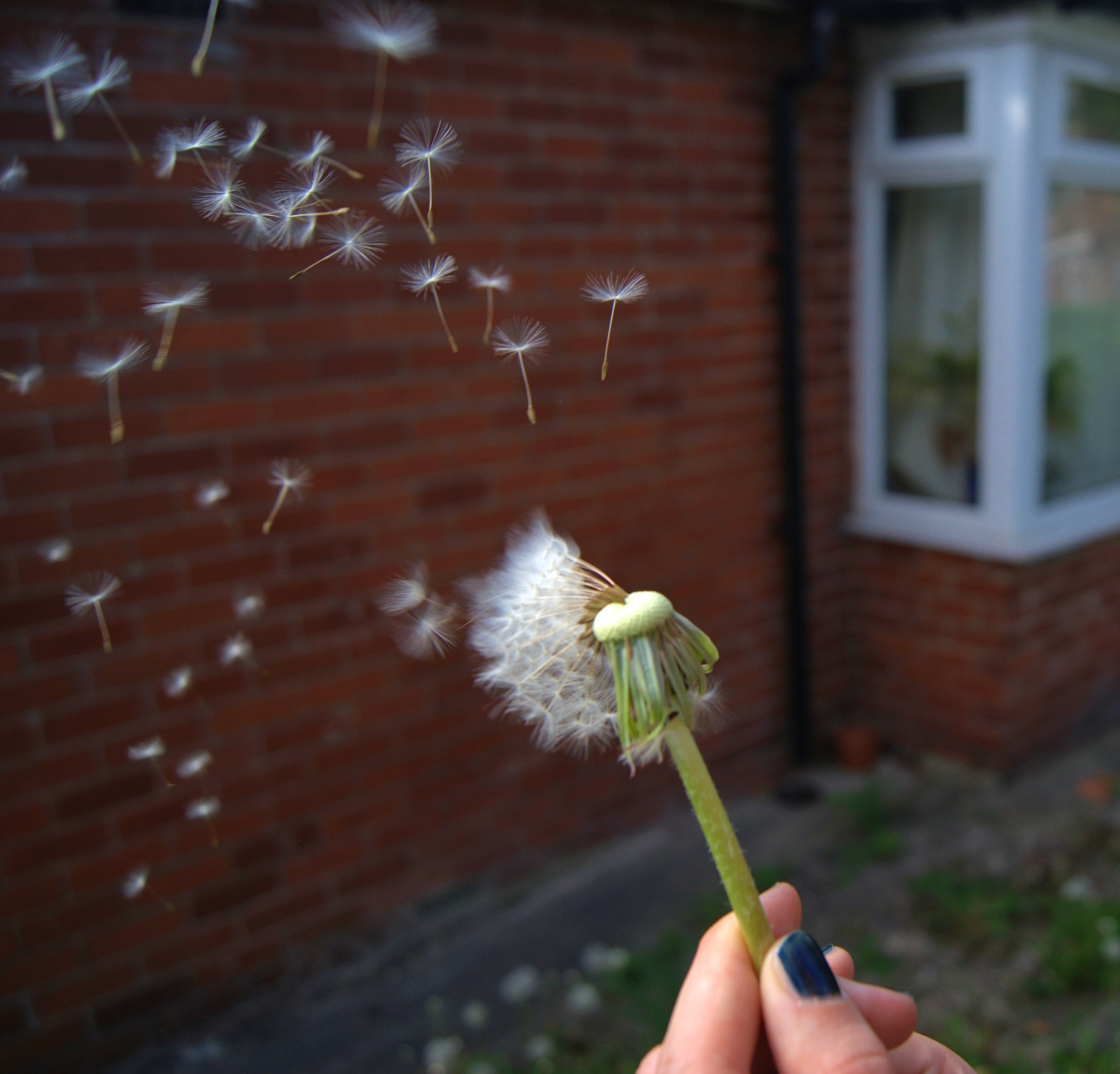 Dandelion seeds being dispersed by an air current